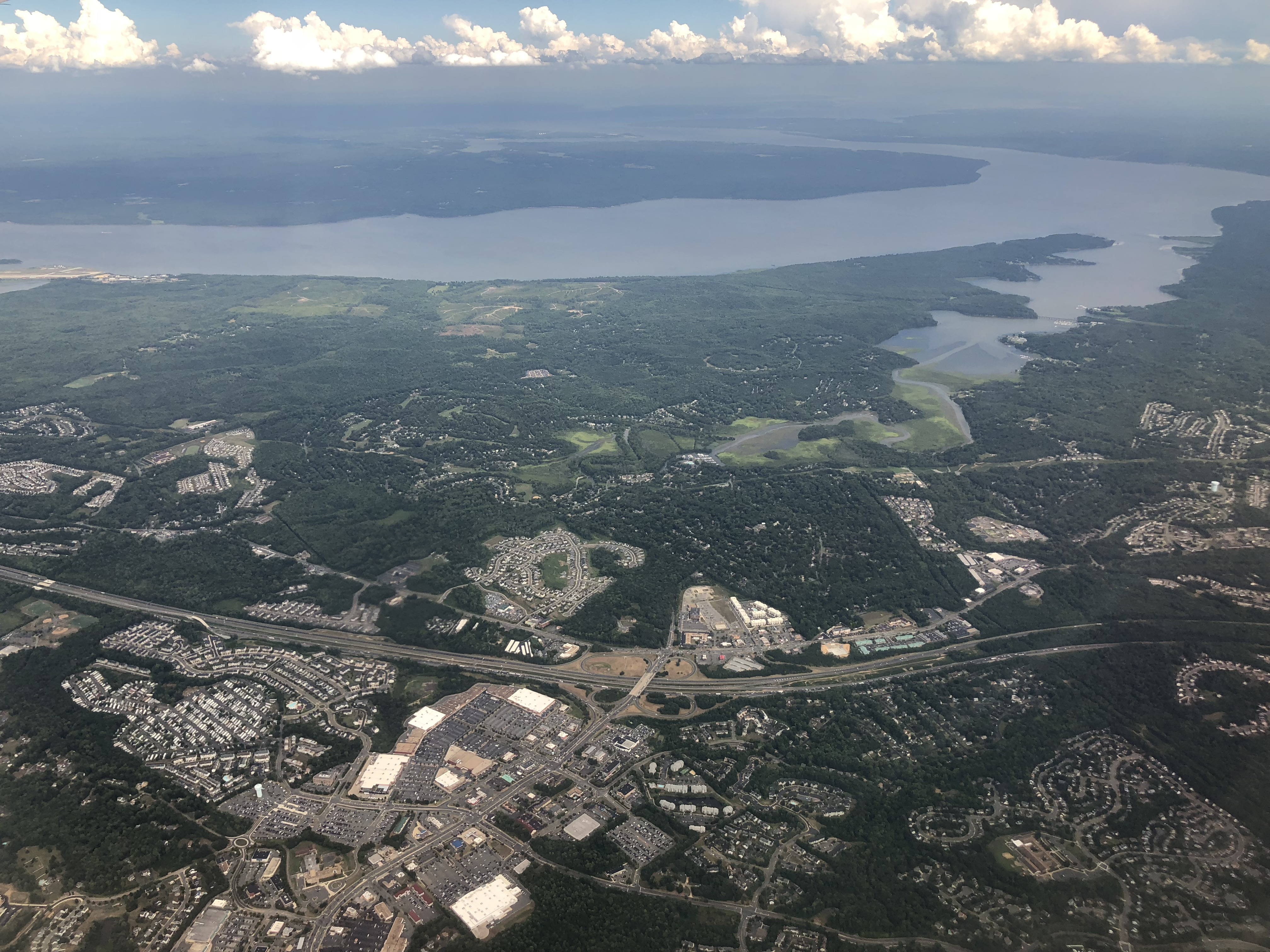 View east across Garrisonville and Aquia Harbour towards the Aquia Creek and the Potomac River in eastern Stafford County, Virginia from an airplane heading for Washington Dulles International Airport